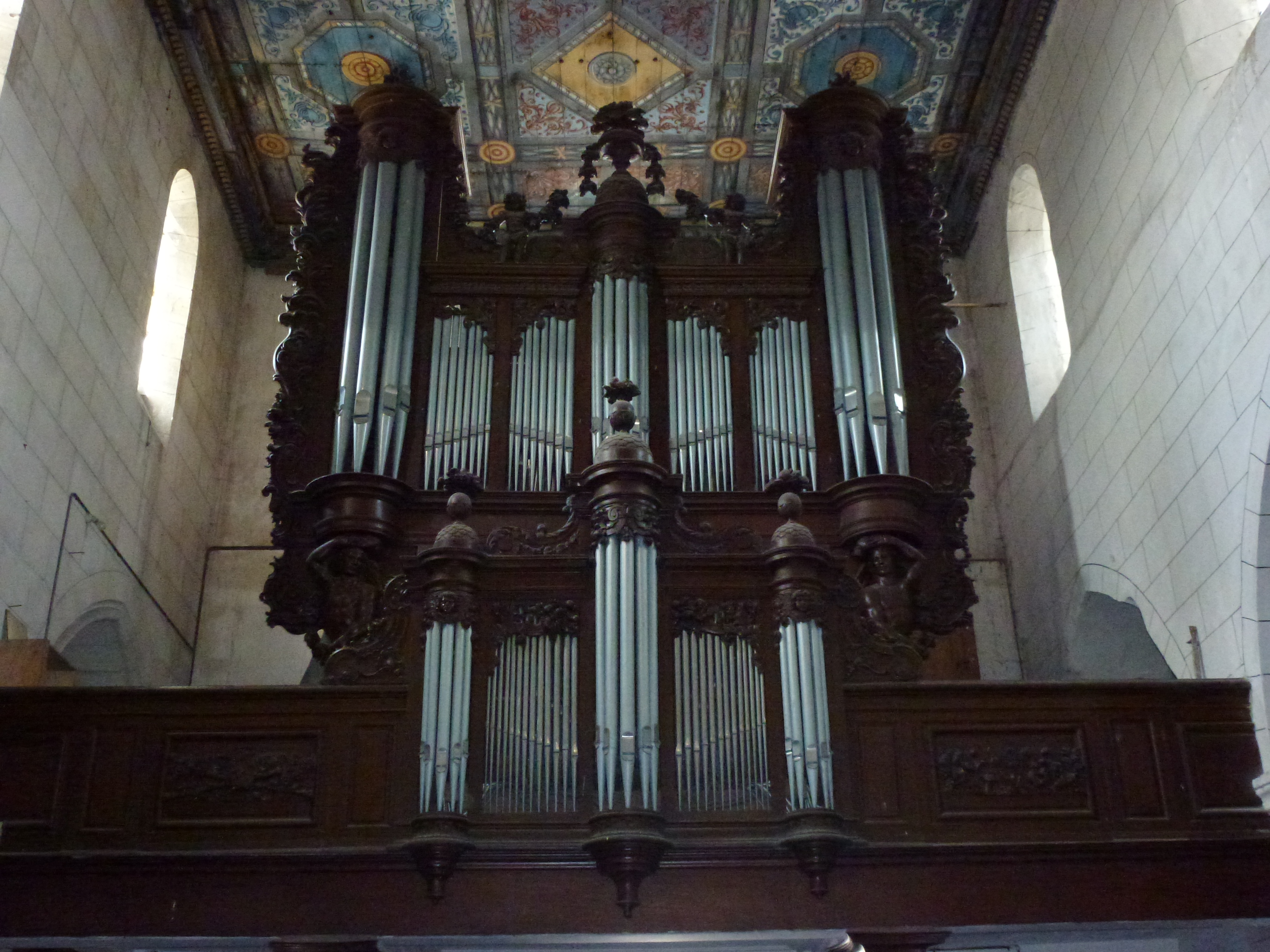 Aubenton (Aisne) Église Notre-Dame, les orgues